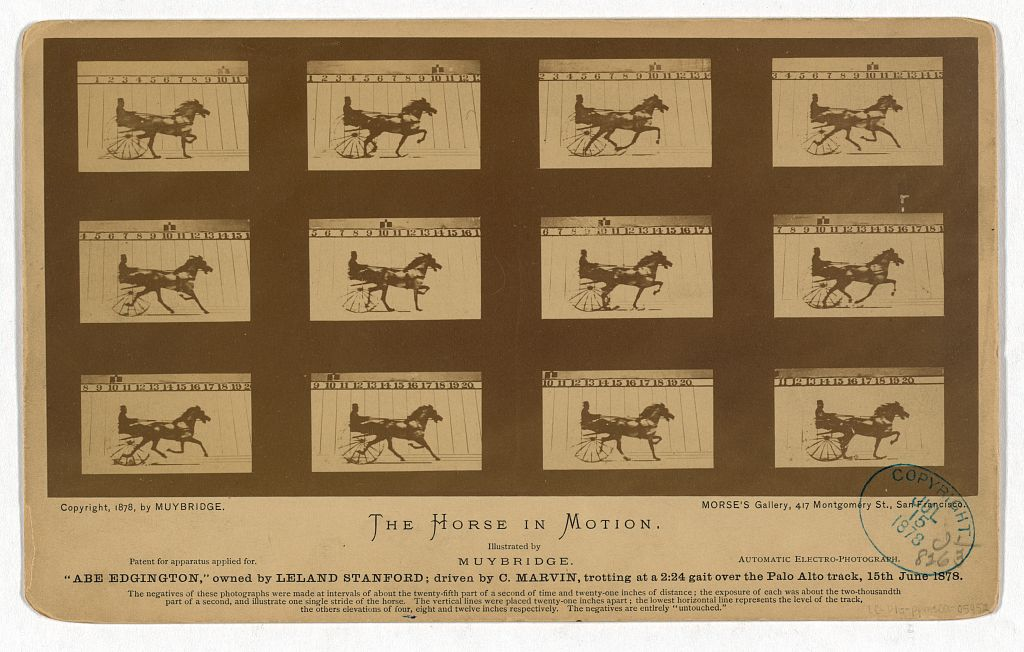 Muybridge, Eadweard,, 1830-1904,, photographer. The Horse in motion. "Abe Edgington," owned by Leland Stanford; driven by C. Marvin, trotting at a 2:24 gait over the Palo Alto track, 15th June 1878 c1878. 1 photographic print on card : albumen. Notes: Title from item. Description of each frame on verso. "Morse's Gallery, 417 Montgomery St., San Francisco." "Automatic Electro-photograph." Photograph with twelve frames showing motion of a race horse harnessed to a sulky. Exhibited: "Moving Pictures : The Un-easy Relationship between American Art and Early Film" at the Williams College of Art, MA, and other venues, 2005-2007. Subjects: Animal locomotion--1870-1880. Harness racing--California--Palo Alto--1870-1880. Horses--California--Palo Alto--1870-1880. Format: Card photographs--1870-1880. Motion study photographs--1870-1880. Albumen prints--1870-1880. Repository: Library of Congress, Prints and Photographs Division, Washington, D.C. 20540 USA, Higher resolution image is available (Persistent URL): Call Number: LOT 3081 [item]